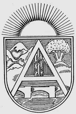 Coat of arms of the Regional Council of Defense of Aragon (1936-1937)